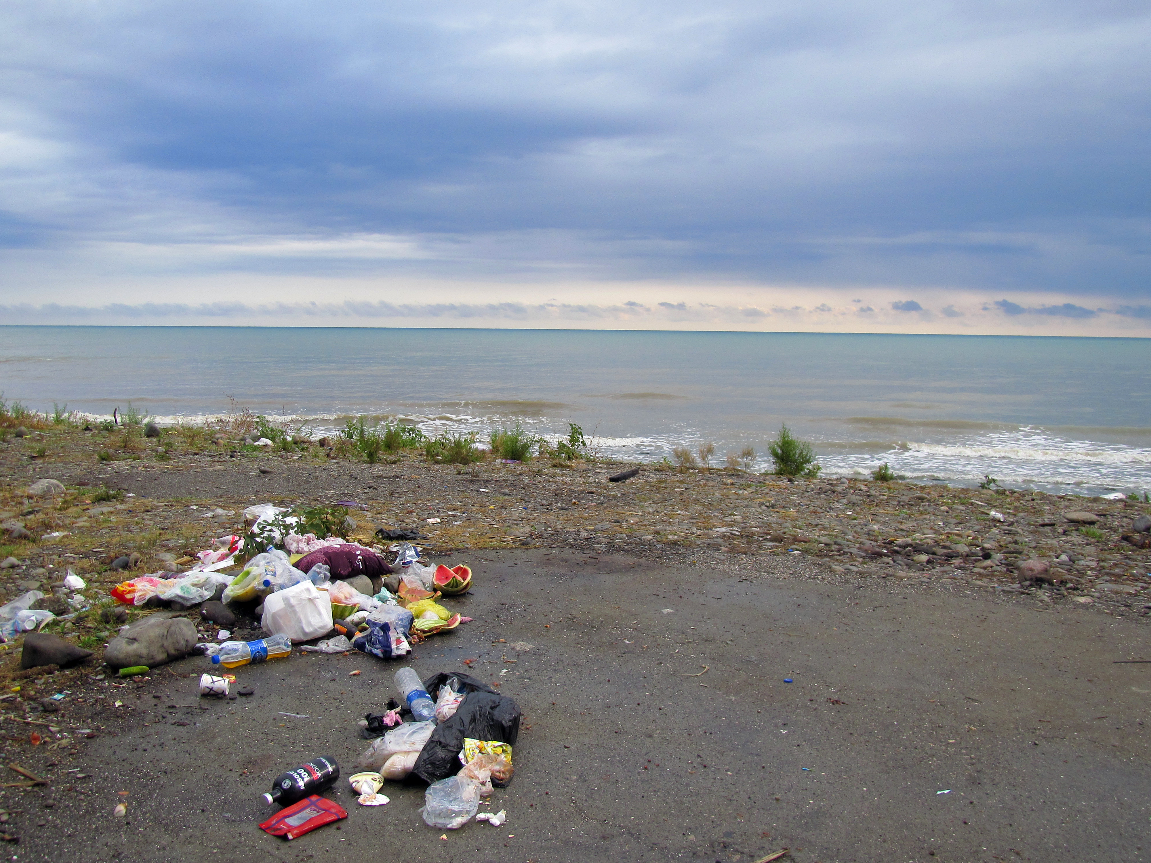 Northern Iran includes the Southern Caspian regions representing provinces of Gilan, Mazandaran, and Golestan of Iran (Ancient kingdom of Hyrcania, medieval region of Tabaristan). The major provinces, Gilan and Mazandaran, are covered with dense forests, snow-covered mountains and impressive sea shores. The major cities are Amol, Bâbol, Anzali, Rasht, Câlus, Sâri and Qaem Shahr (shâhi). Northern Iran has numerous villages, particularly Massulé, appreciated by travellers.